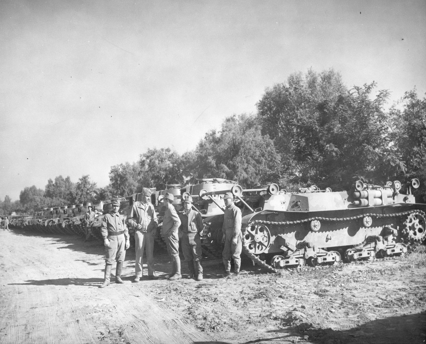 A Japanese tank unit, supposedly the 3rd Tank Division, which surrendered to the Americans at Tianjin.